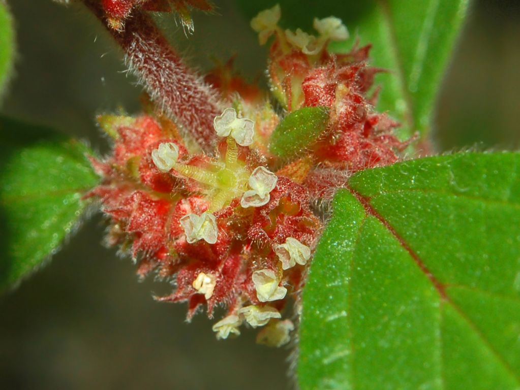 Paritaria judaica - Genova, Italy; staminate (male) flower at the centre